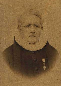 Sophus Vilhelm Claudi (1818-1891), Danish priest and politician, MP